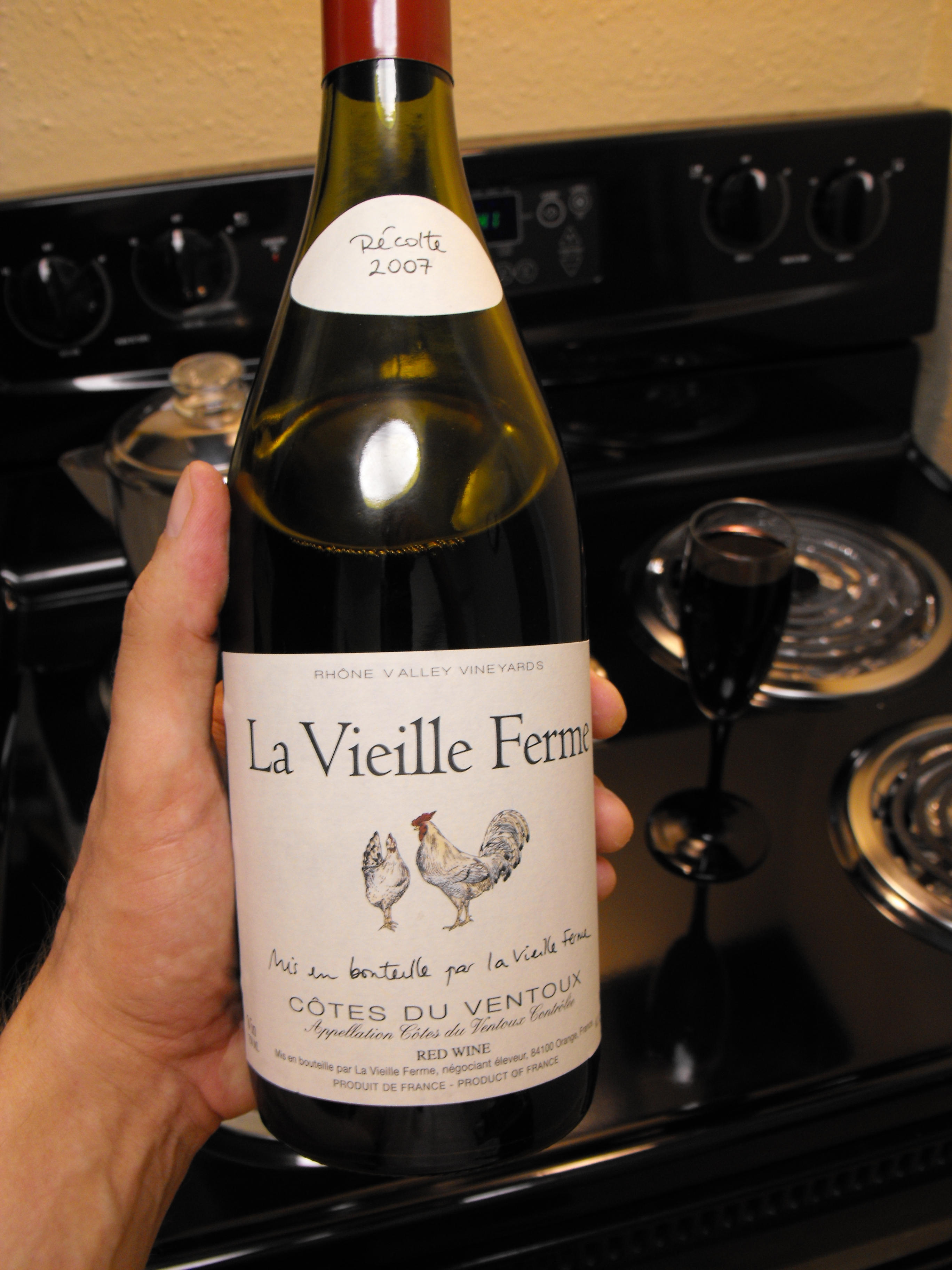 AOC Ventoux 2007, La Vieille Ferme by Jean-Pierre Perrin